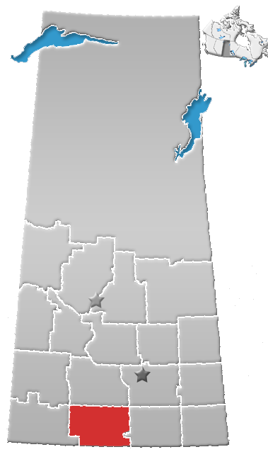 Saskatchewan census area No. 03